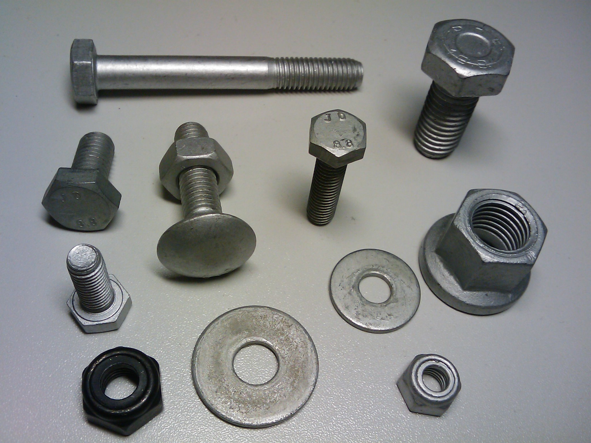 Fastening with Delta (Dacromet) coating